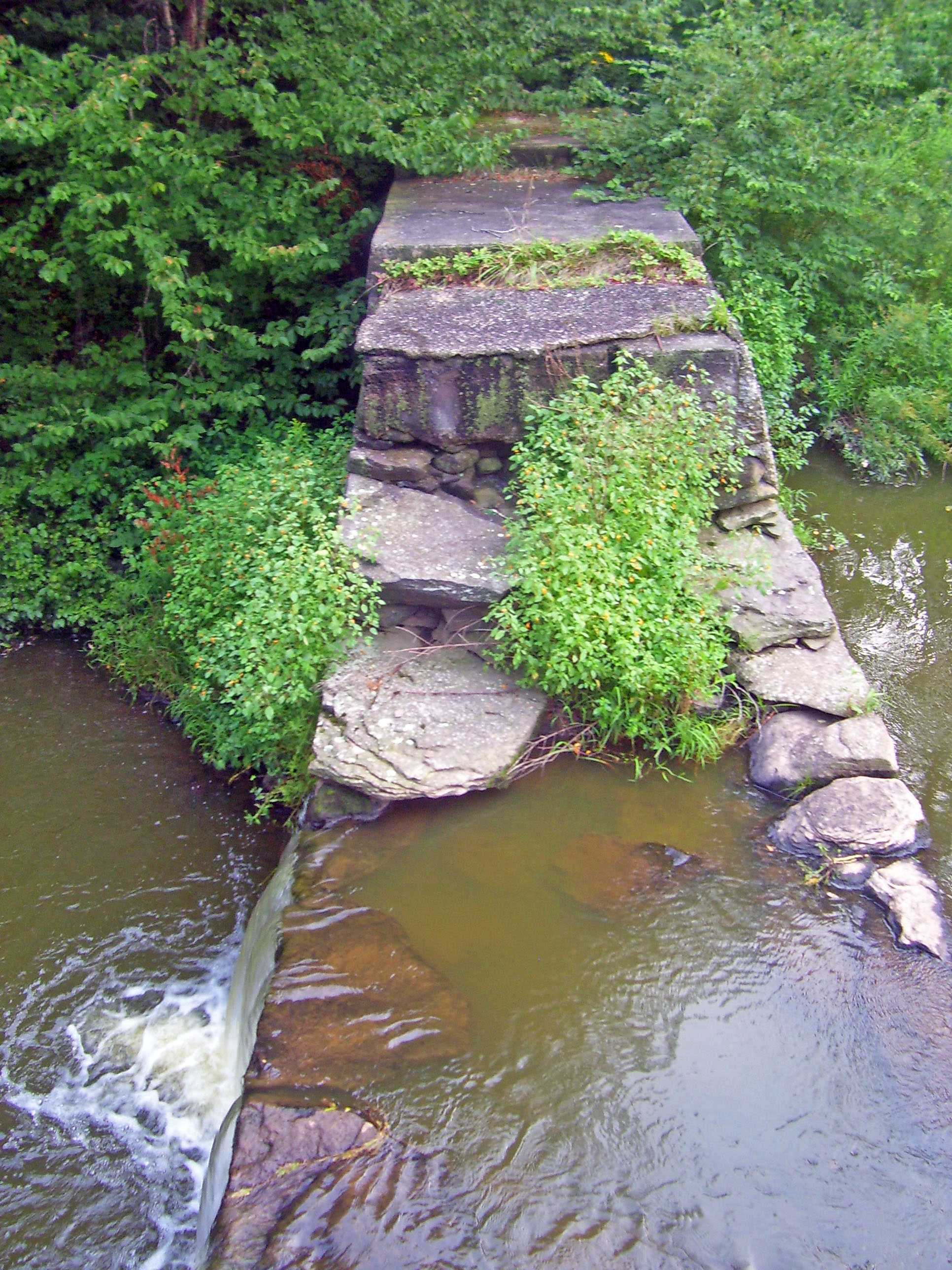 Silver Lake Dam, at the source of Sandburg Creek near Woodridge, NY, USA